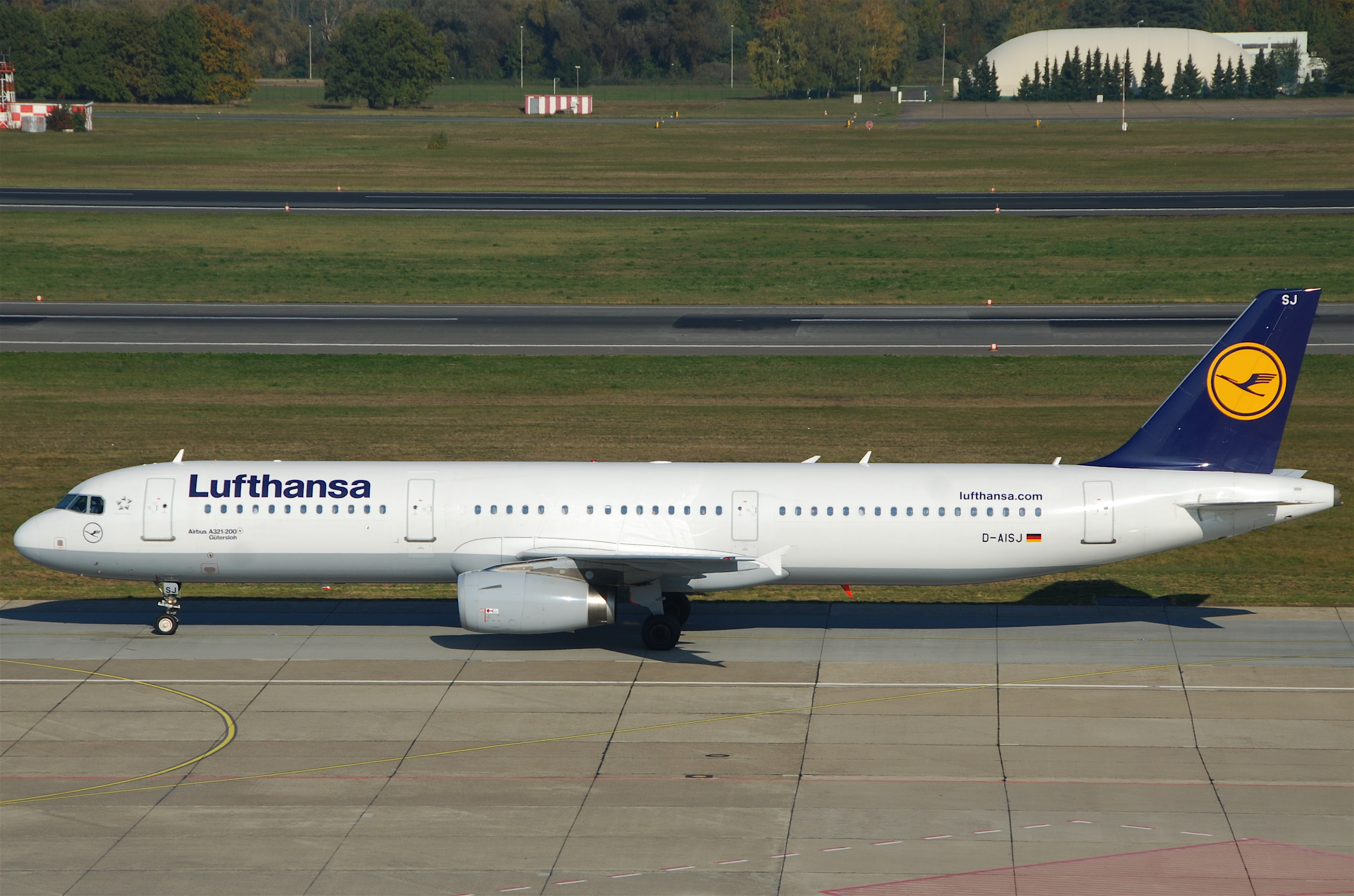 This Airbus A321, named 'Gütersloh', took its first flight on January 16, 2008 and was delivered on January 25, 2008...(c/n 3360)